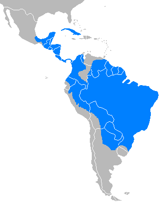 Distribution of Tayassu pecari